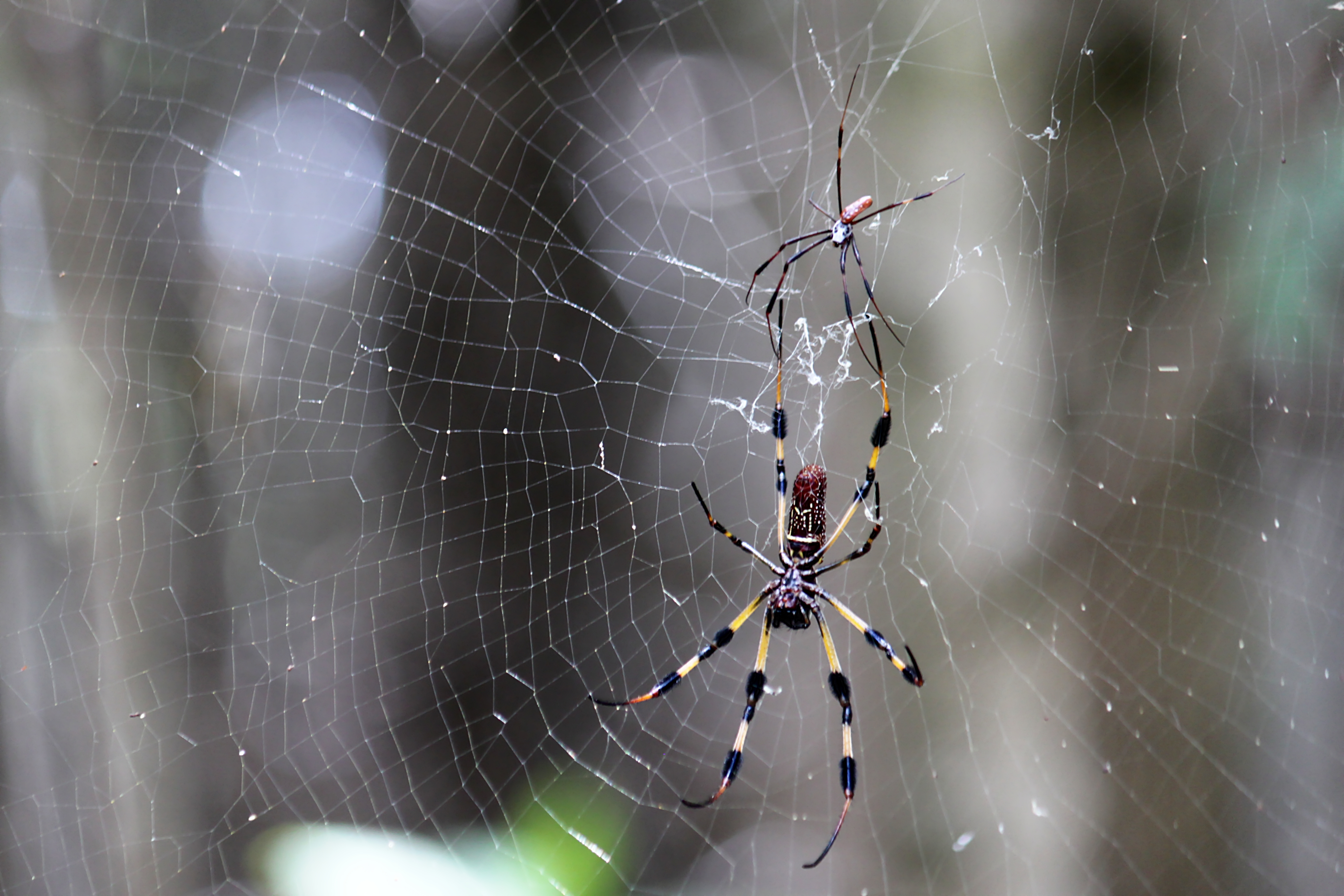 The female Golden Silk Orb-weaver spider Spider can be identified by her size. She may grow up to an inch long. The male Golden Silk Orb-weaver spider is much smaller.